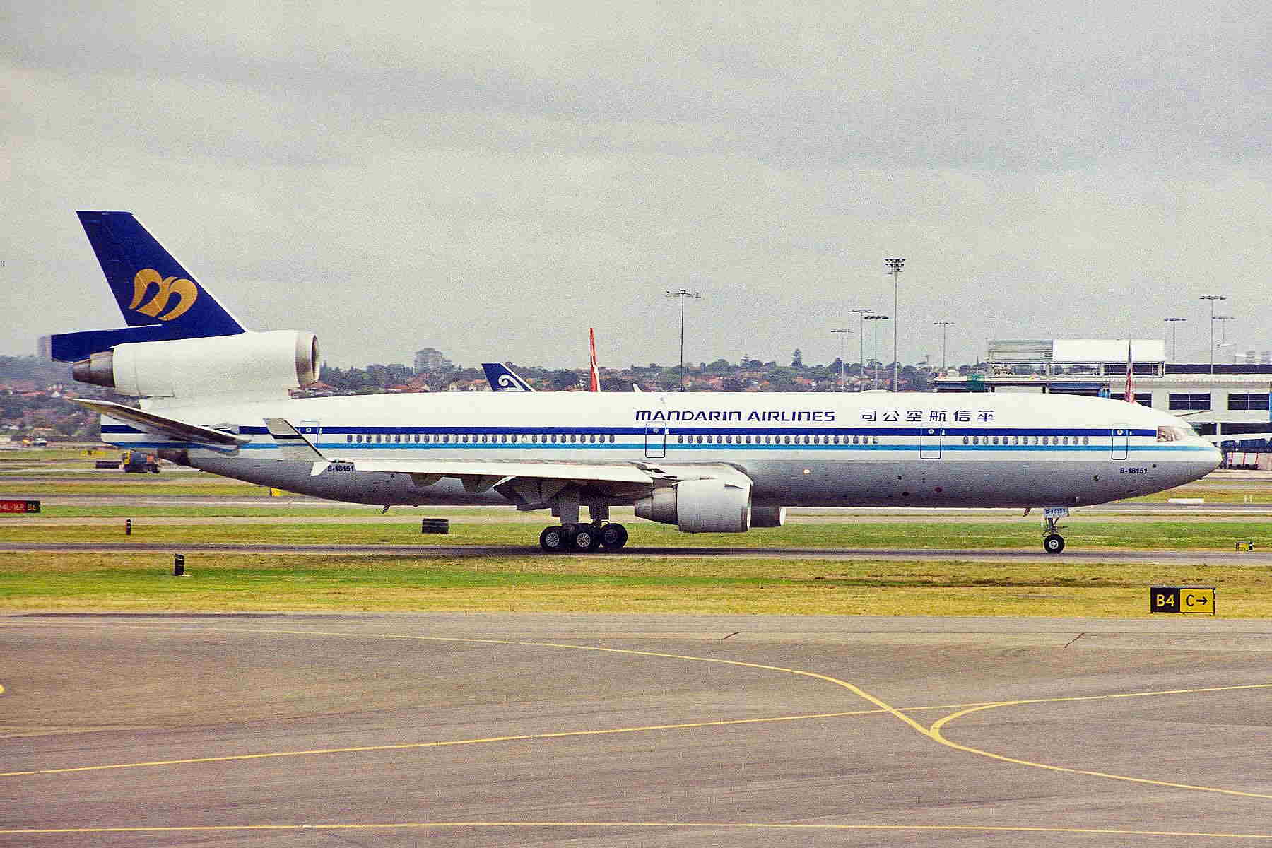 Previously registered B-152